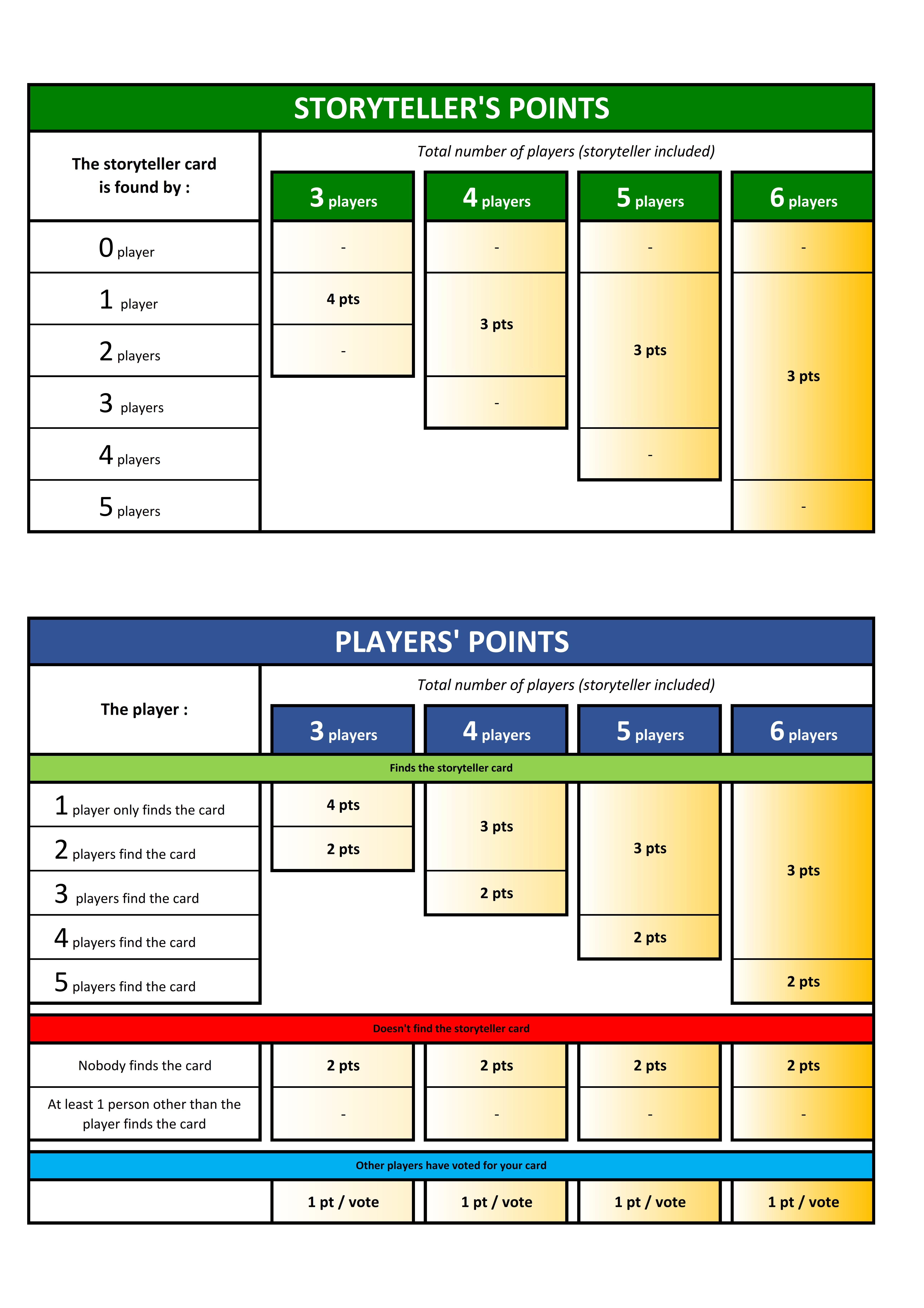 How to count points